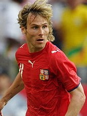 Footballer Pavel Nedvěd playing for the Czech Republic against Ghana at the 2006 FIFA World Cup (crop)